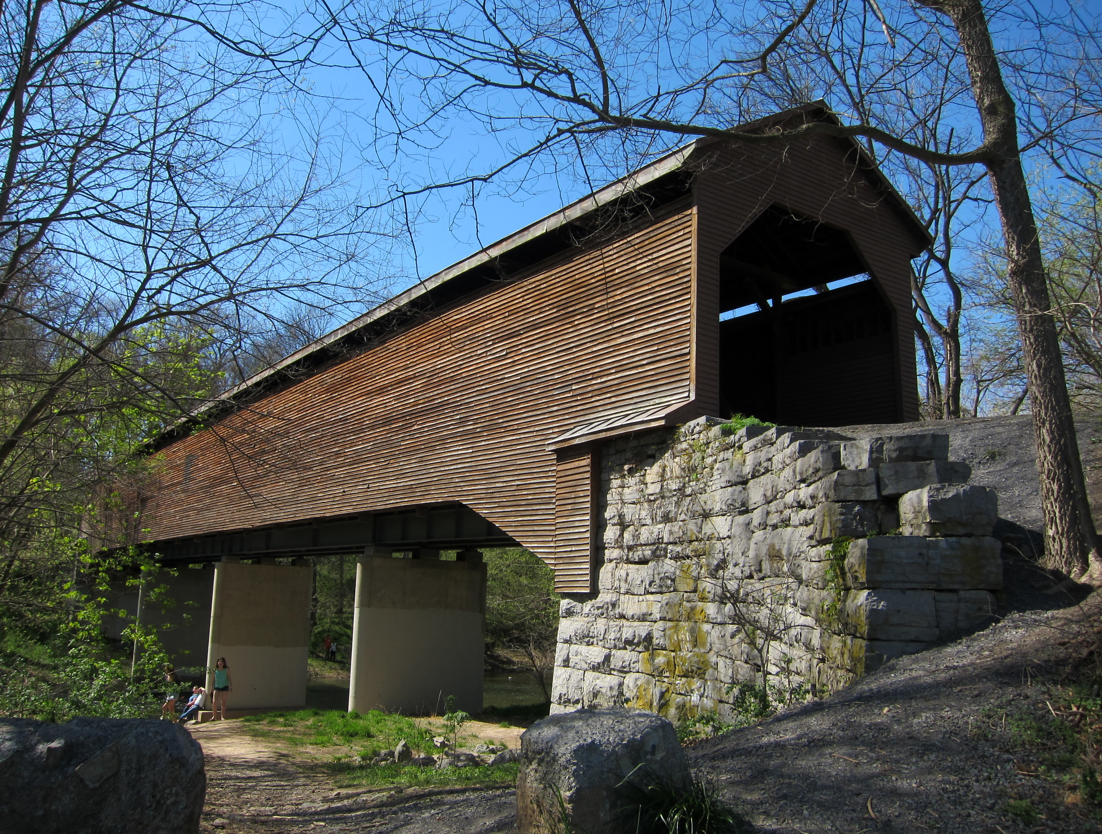 Meems Bottom Covered Bridge is a historic covered bridge in Shenandoah County, Virginia, United States.